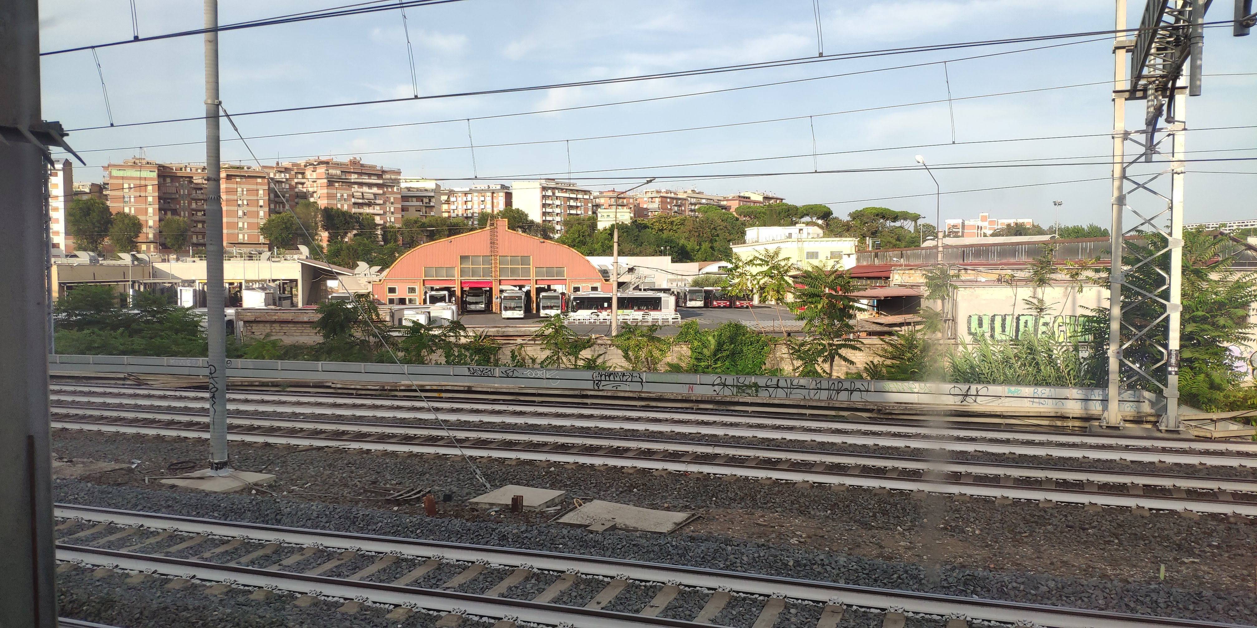 Portonaccio bus depot in Rome